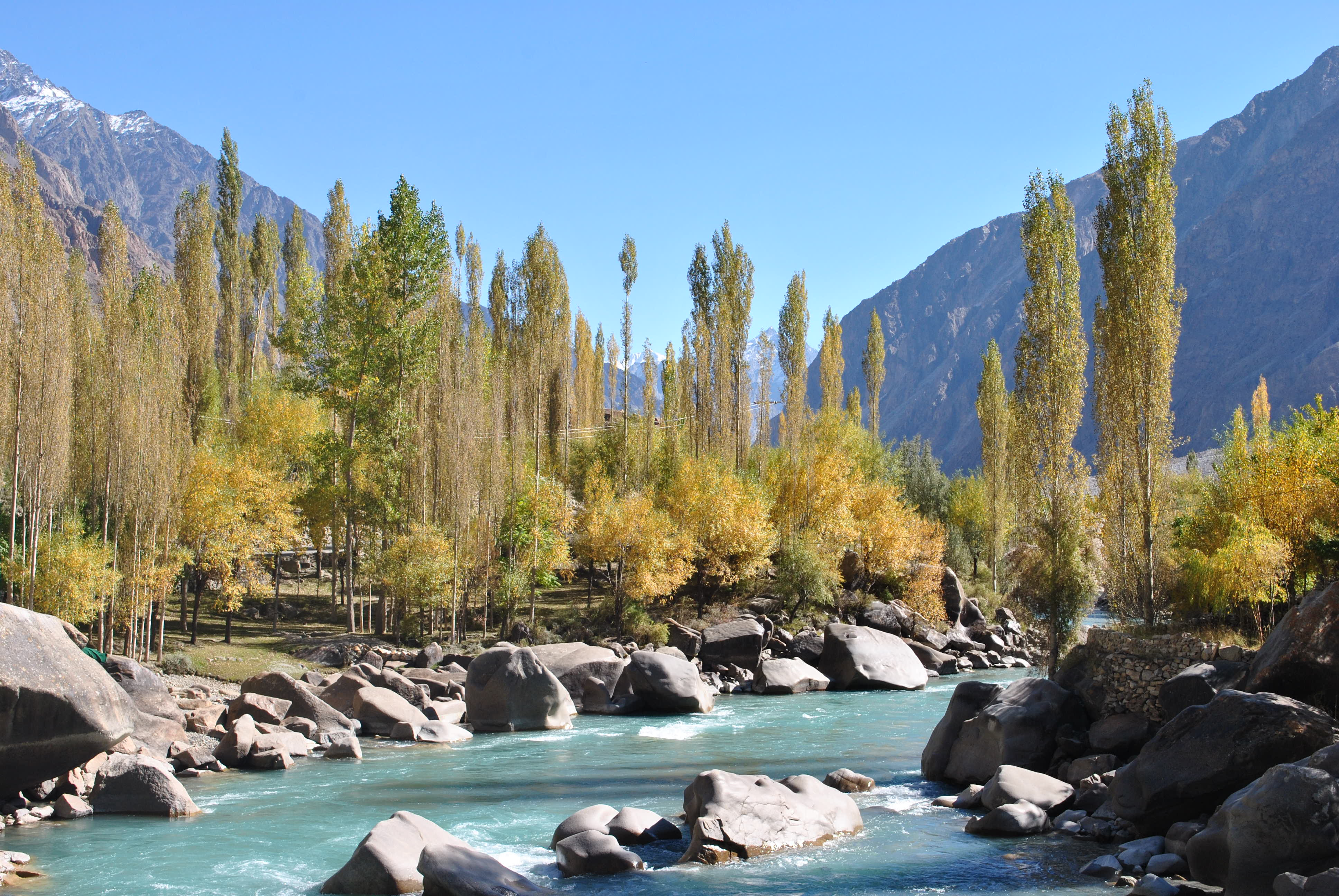 View of river Yasin from Noh bridge.